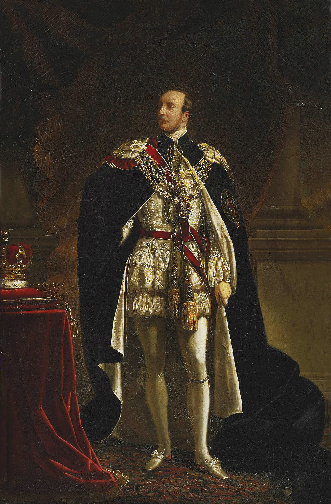 King George V of Hannover in Ceremonial Robes of Order of The Garter